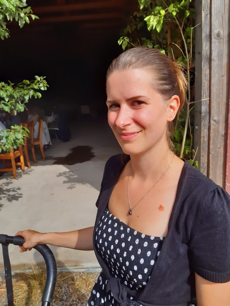 Nike Bengtzelius, a Swedish writer and translator (2019).